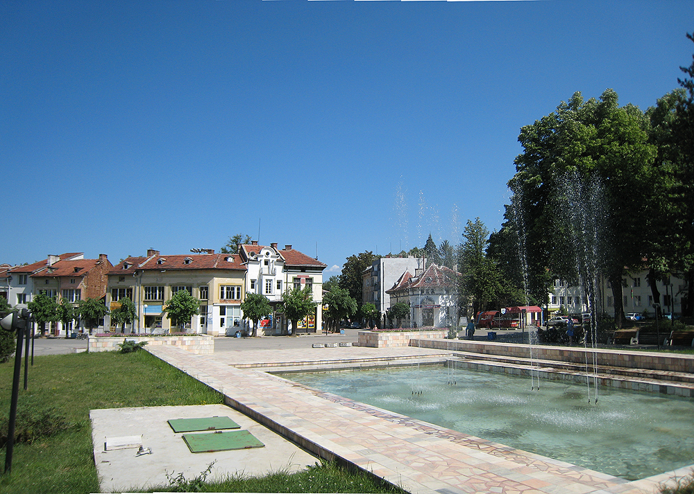 Berkovitsa central square